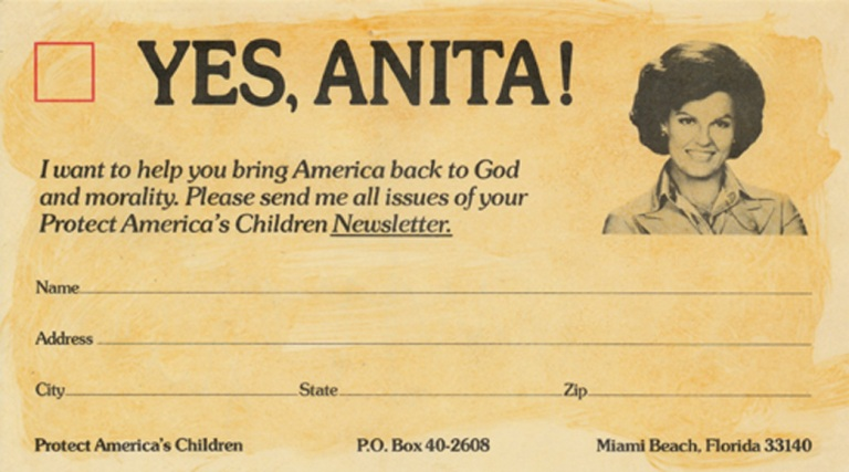 Fundraising card used by Anita Bryant to support Save Our Children. Many of their strategies were embraced by the Moral Majority, established two years later